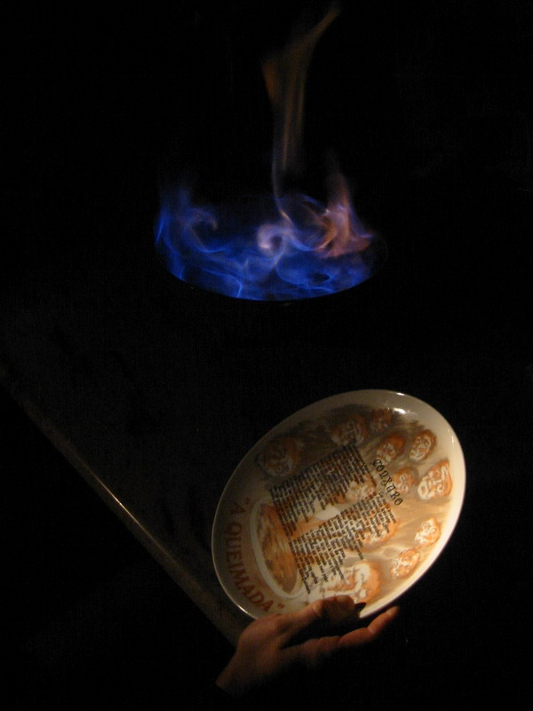 Queimada a typical drink from Galicia (Spain), is prepared burning the drink and reciting a conjure.